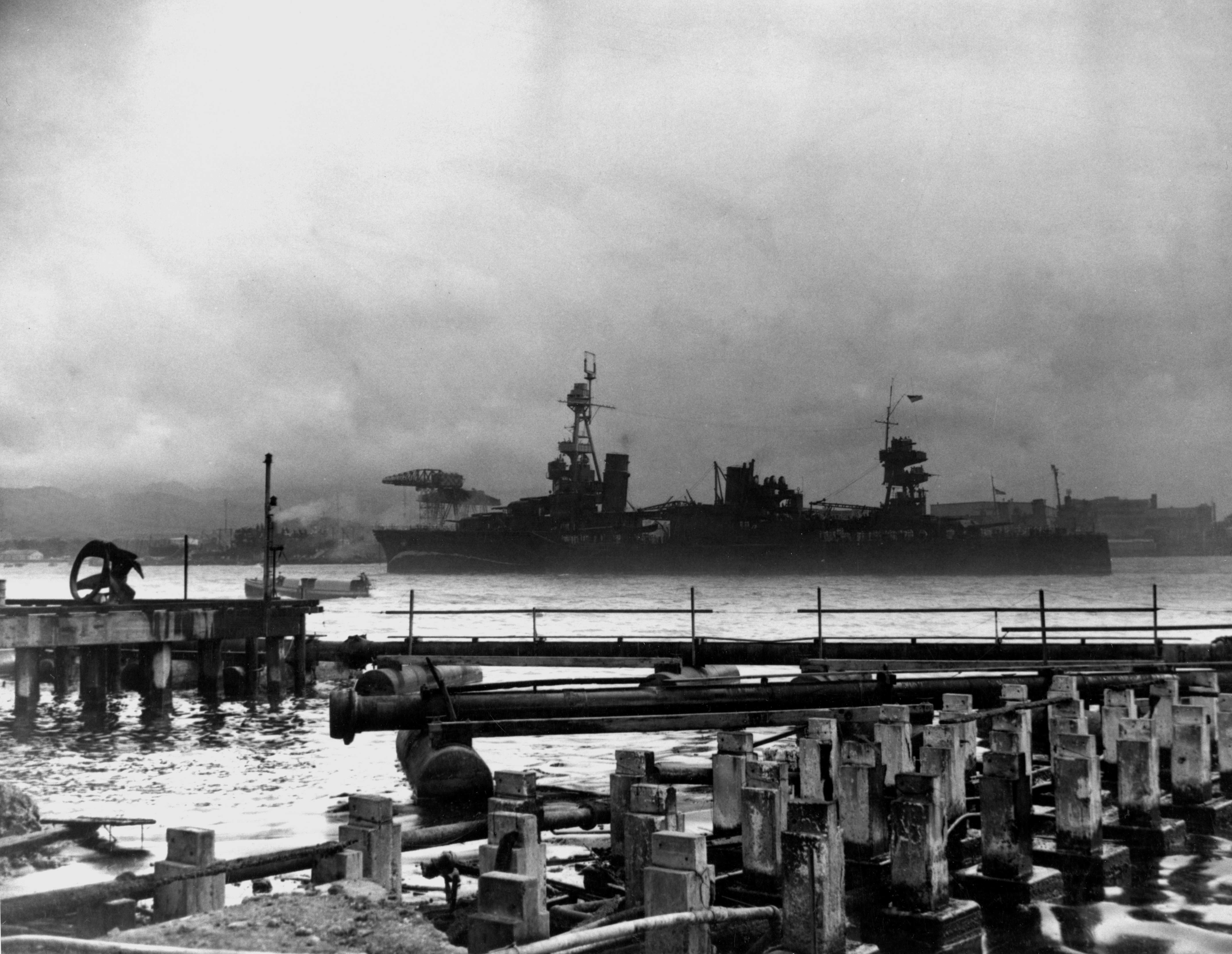 The U.S. Navy heavy cruiser USS Northampton (CA-26) steams into Pearl Harbor on the morning of 8 December 1941, the day after the Japanese air attack. Photographed from Ford Island, looking toward the Navy Yard, with the dredging pipe in the foreground. Northampton was at sea with Vice Admiral Halsey's task force on the day of the attack. Note her Measure One (dark) camouflage, with a Measure Five false bow wave, and manned anti-aircraft director positions.